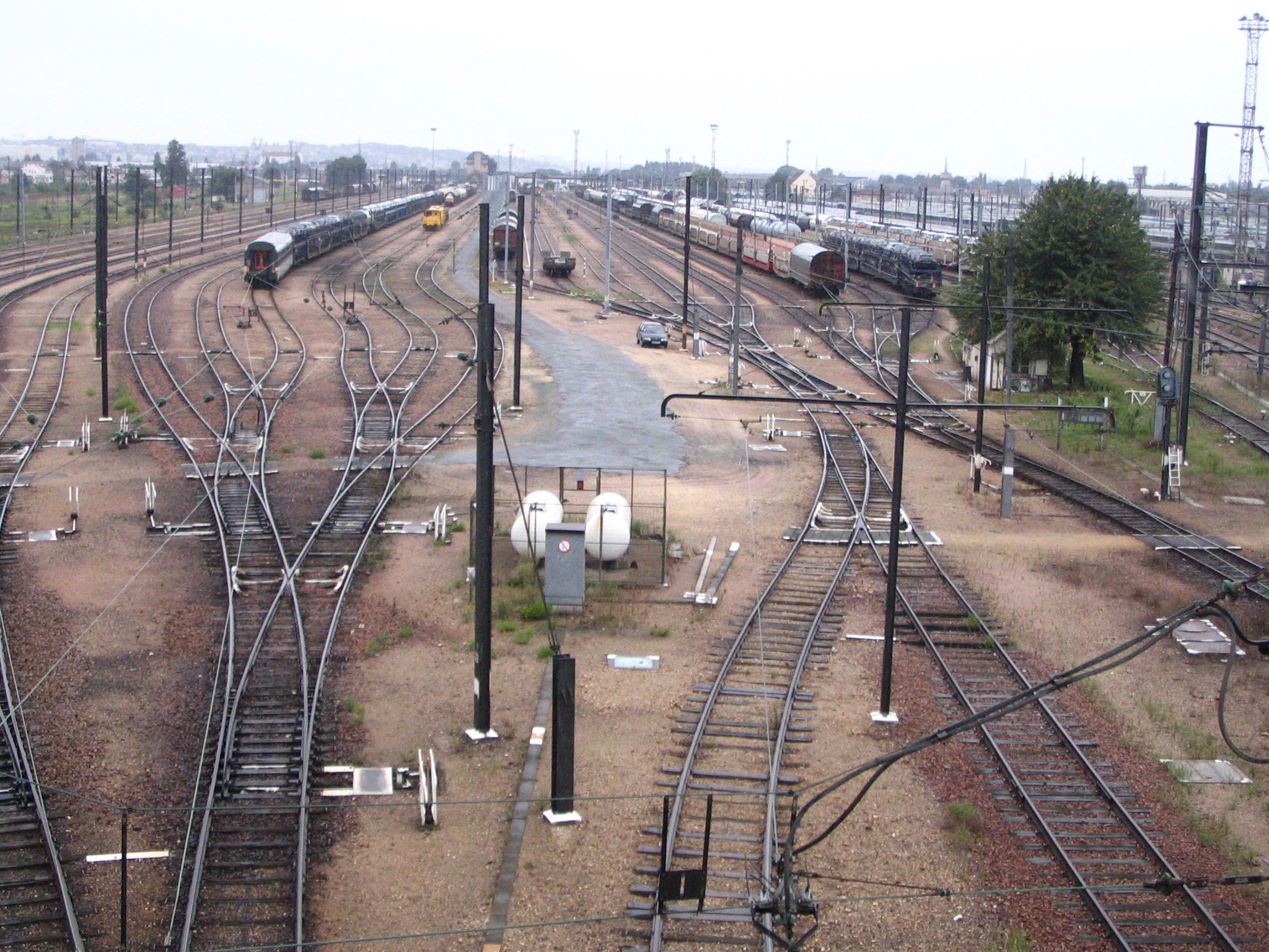 Villeneuve-Saint-Georges's classification yard, in Val-de-Marne, France.